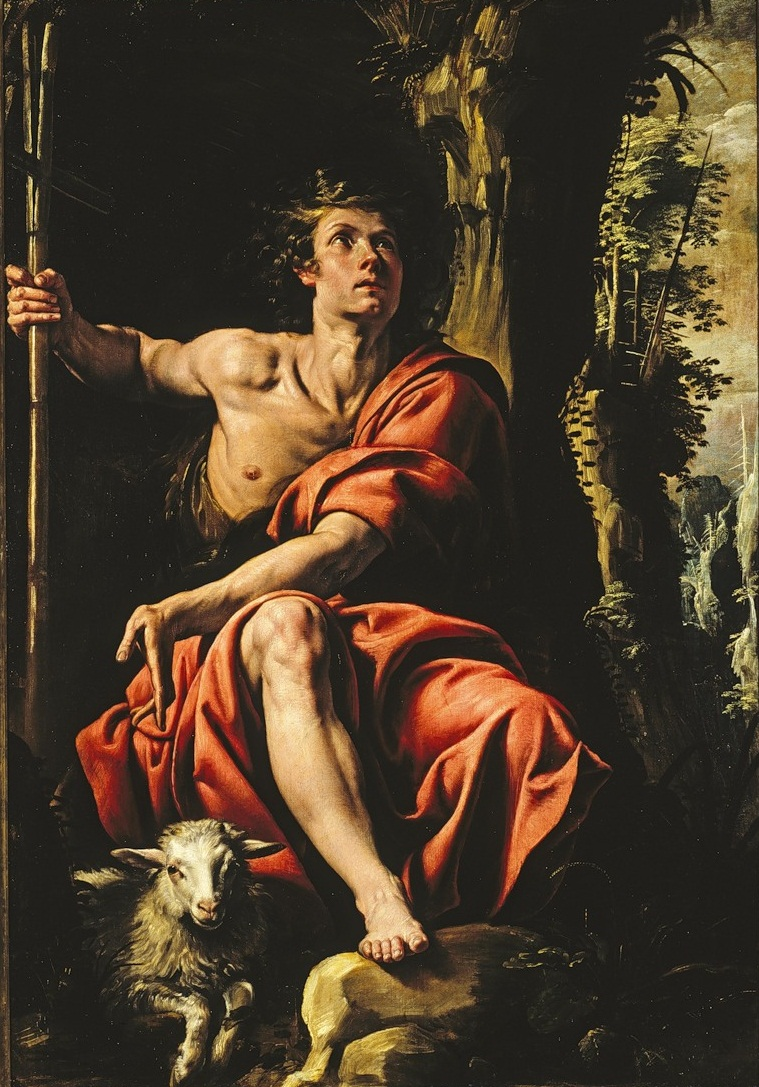 San Giovanni Battista nel deserto